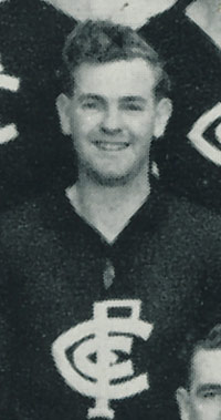 Photo of Ron Boys in 1934